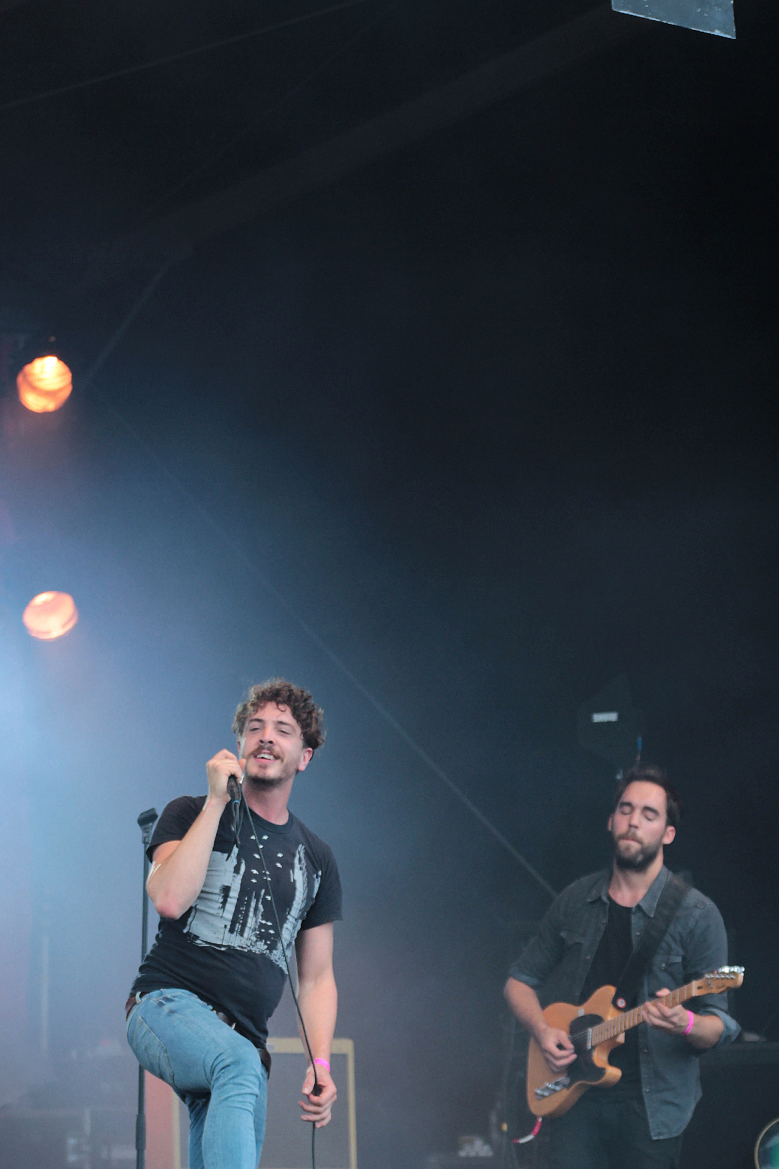 The Medics performing at Uitmarkt 2014 on 30 August 2014 in Amsterdam.